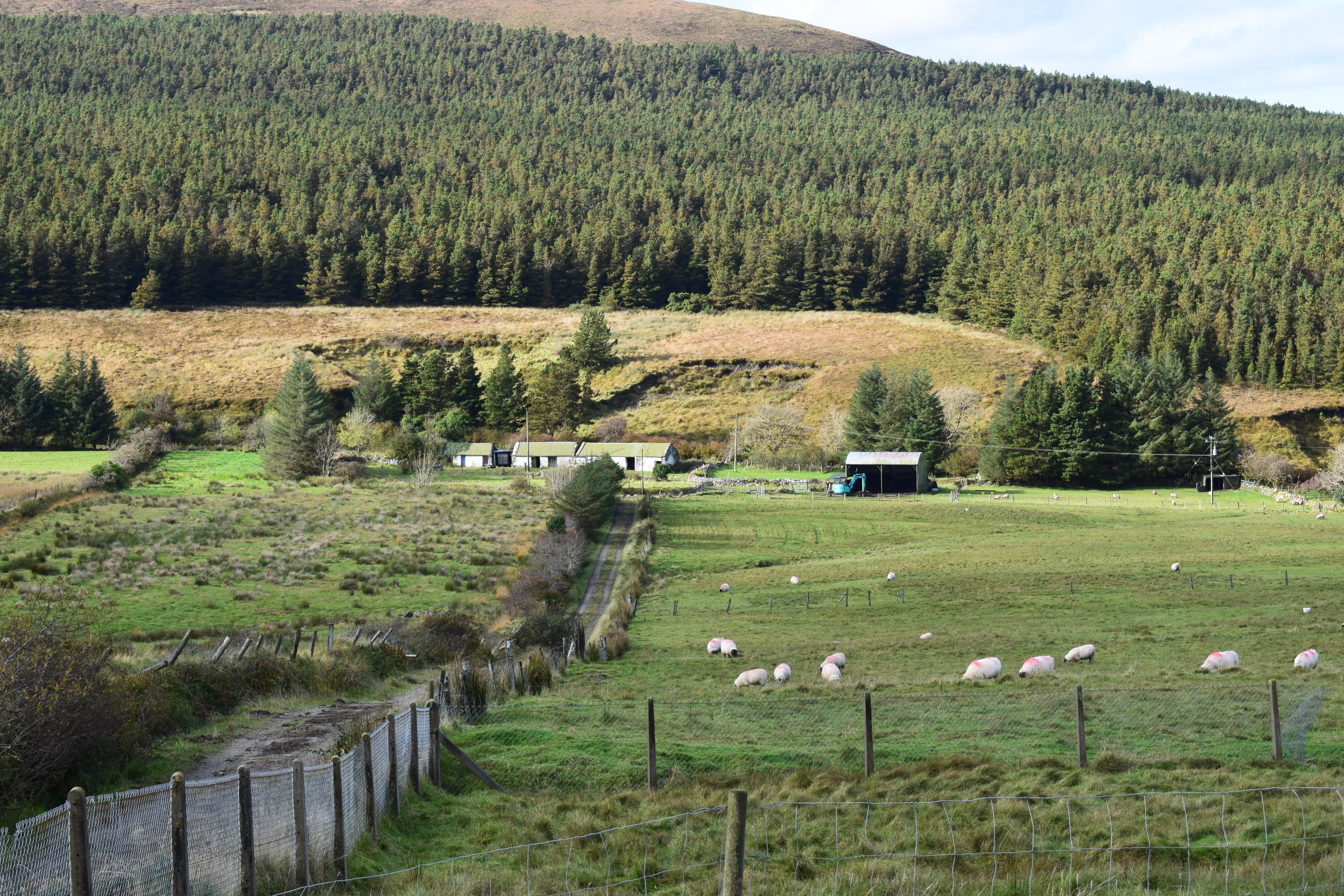 A picture of the Barrooskey valley with small farm and outbuildings